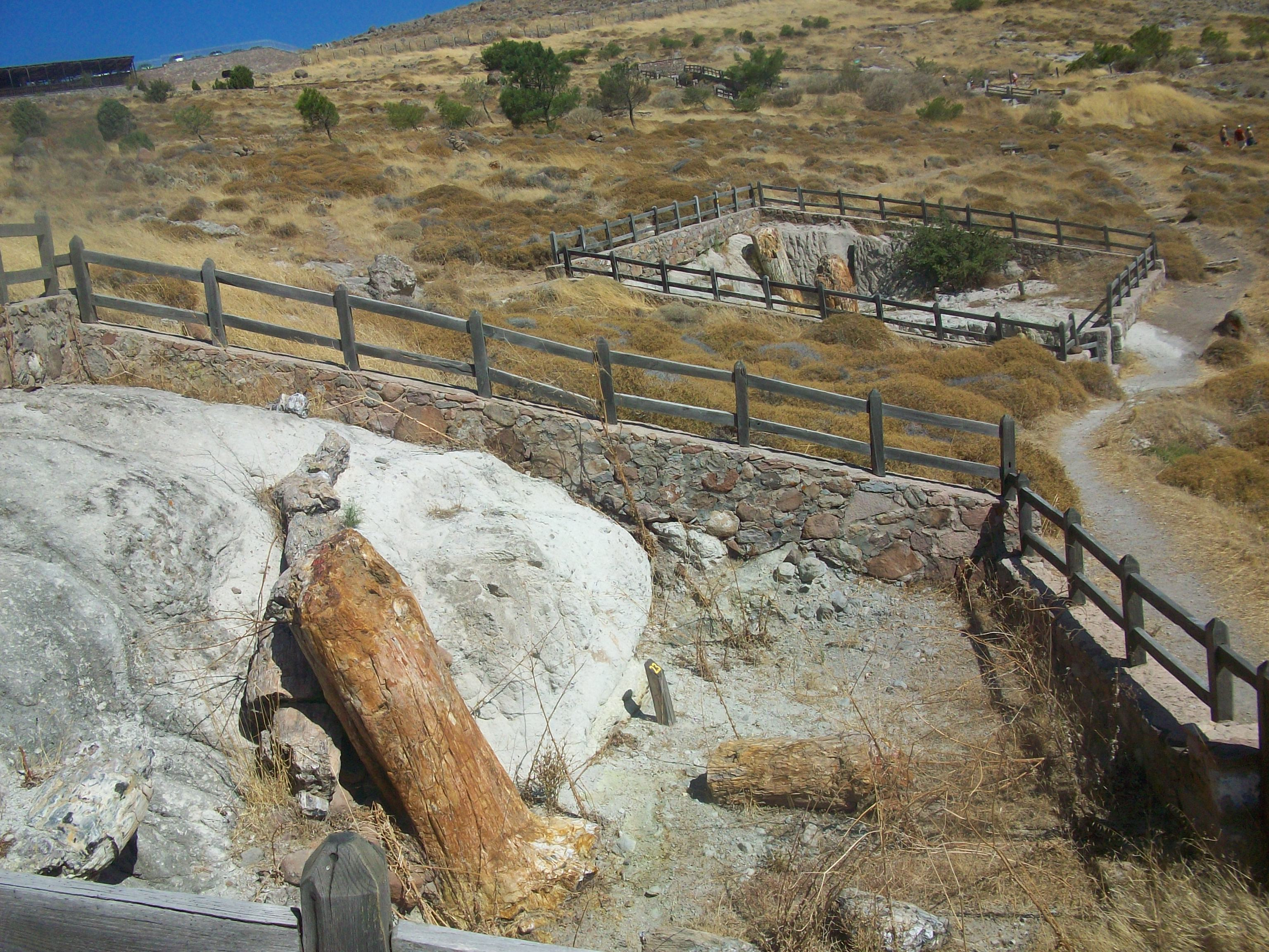 Trunks 23-24 at Lesbos petrified forest. Trunk 23 is the standing one and trunk 24 the lying one. In this photo the different horizons of materials are seen. The lower one is the ground before the explosion where the roots are of the stading trunk are. This lower horizon was covered by volcanic material, forming an intermediate level. Mud flows covered this horizon and also carried the lying trunk. At the background are the trunks 20-21-22.